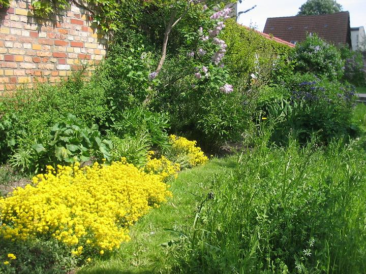 Comenius-Garten nearby the Böhmisches Dorf (Böhmisch-Rixdorf) in Berlin-Neukölln, Germany.